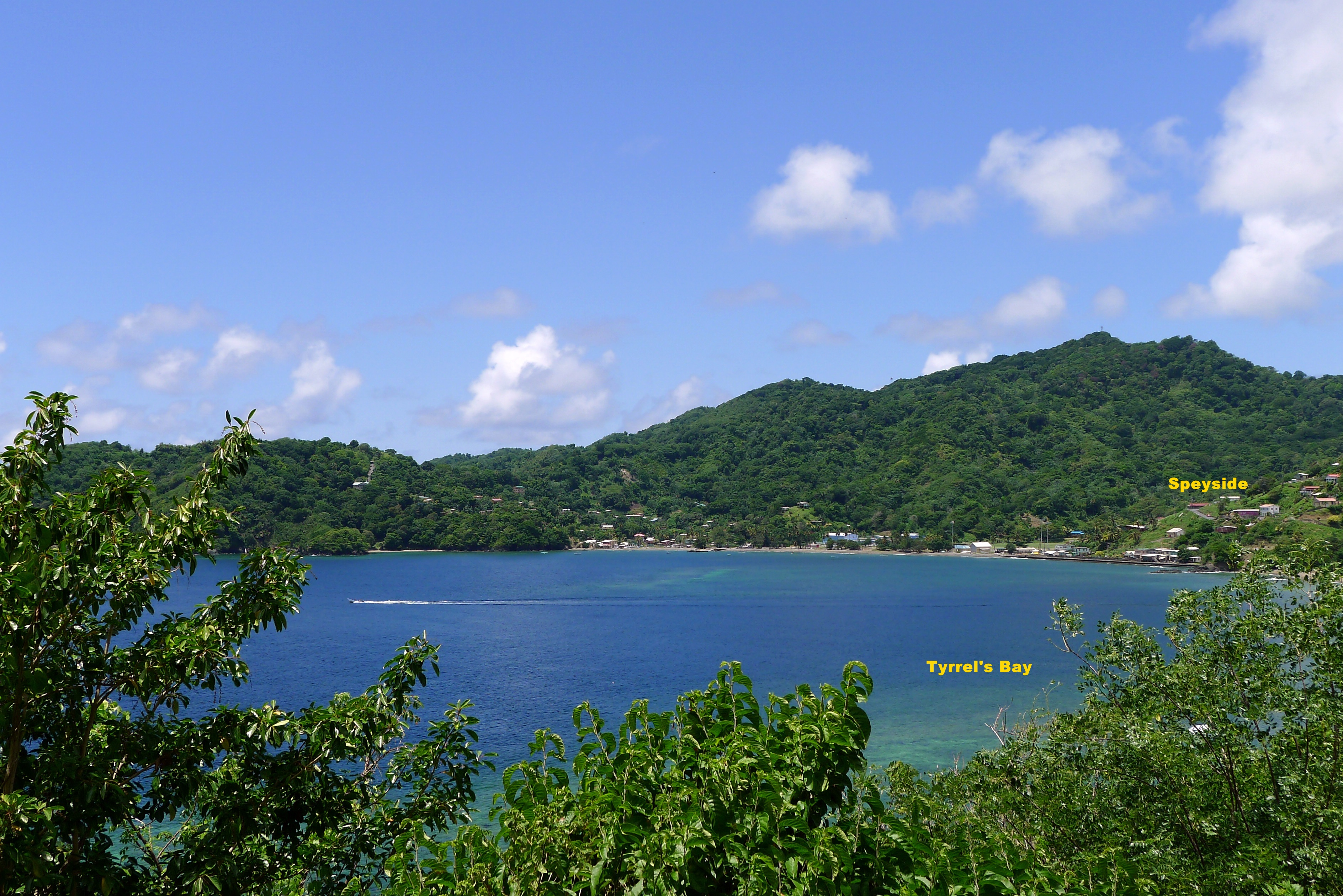 Spetside - Small town on NE coast of Tobago, West Indies. Main activities: fishing, agriculture, bird-watching, snorkelling scuba diving.